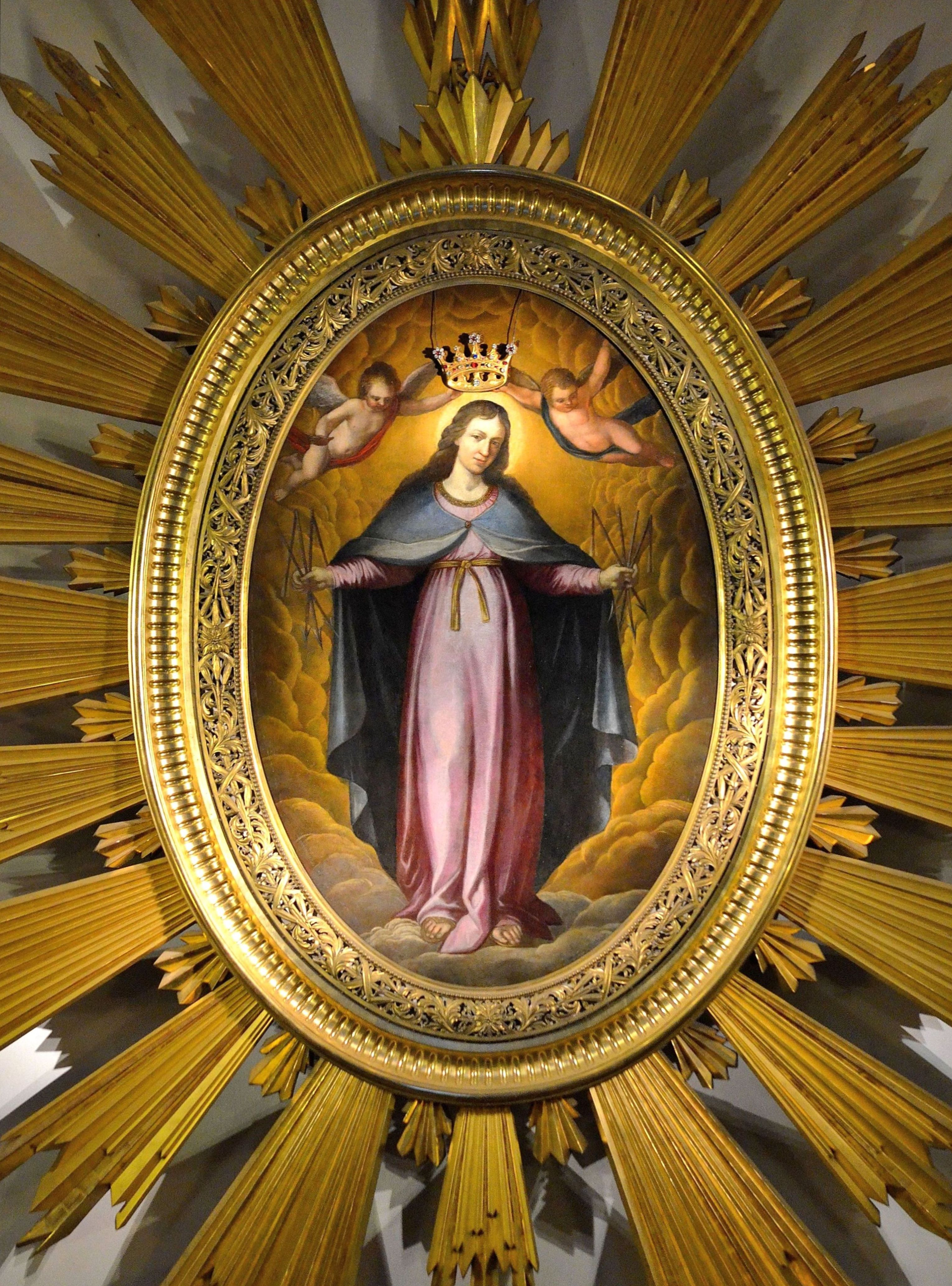 Painting of Our Lady of Graces in the Jesuit Church in Warsaw